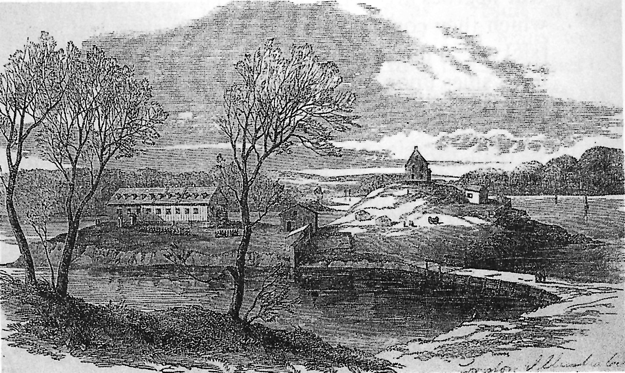 Melville Island in 1855. Sketch by "Lieut. Bland, 76th Regiment" published in London Illustrated News. Stored in Public Archives of Nova Scotia (online copy).